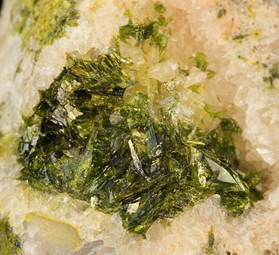 Alunite, Rodalquilarite Locality: Wendy open pit, Tambo Mine, El Indio deposit, Elqui Province, Coquimbo Region, Chile (Locality at ) Size: miniature, 3.4 x 2 x 2 cm Rodalquilarite on Alunite A rich reference specimen with a single large pocket in alunite rind on rock matrix, filled in entirely by Rodalquilarite. Xls to several mm are present, though grown together and not freestanding. Still, its a very intense color and concentration of this rare tellurite species.